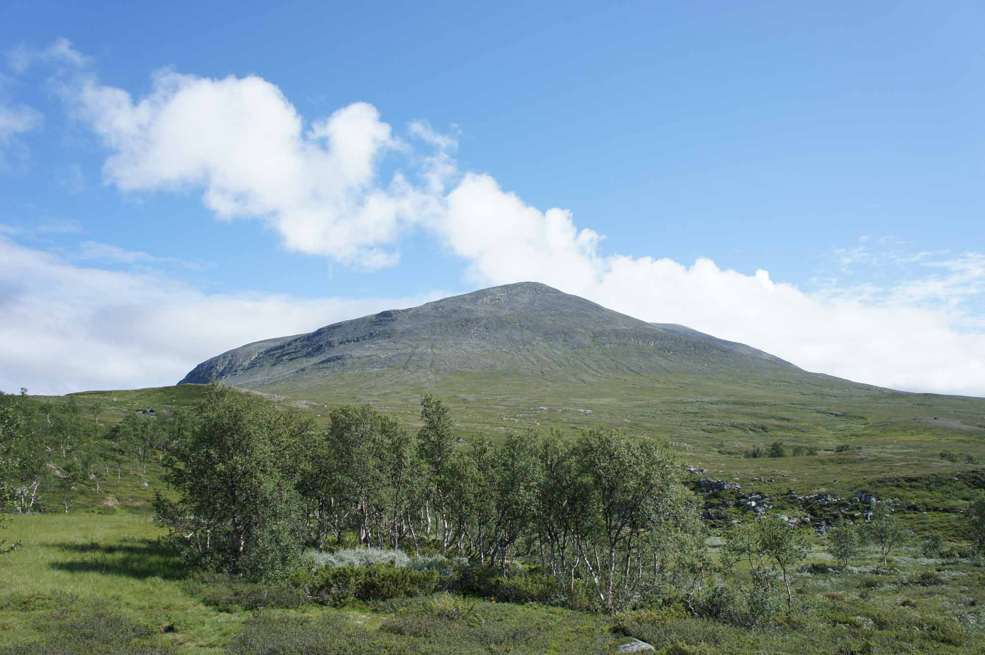 The mountain Västra Bunnerstöten